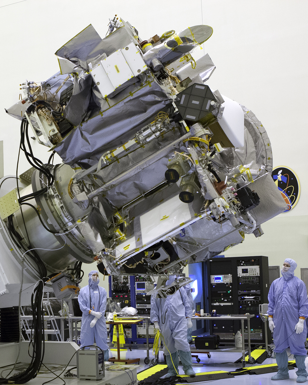 OSIRIS-REx being hoisted on rotation stand and rotated downwards inside the PHSF. (cropped version)